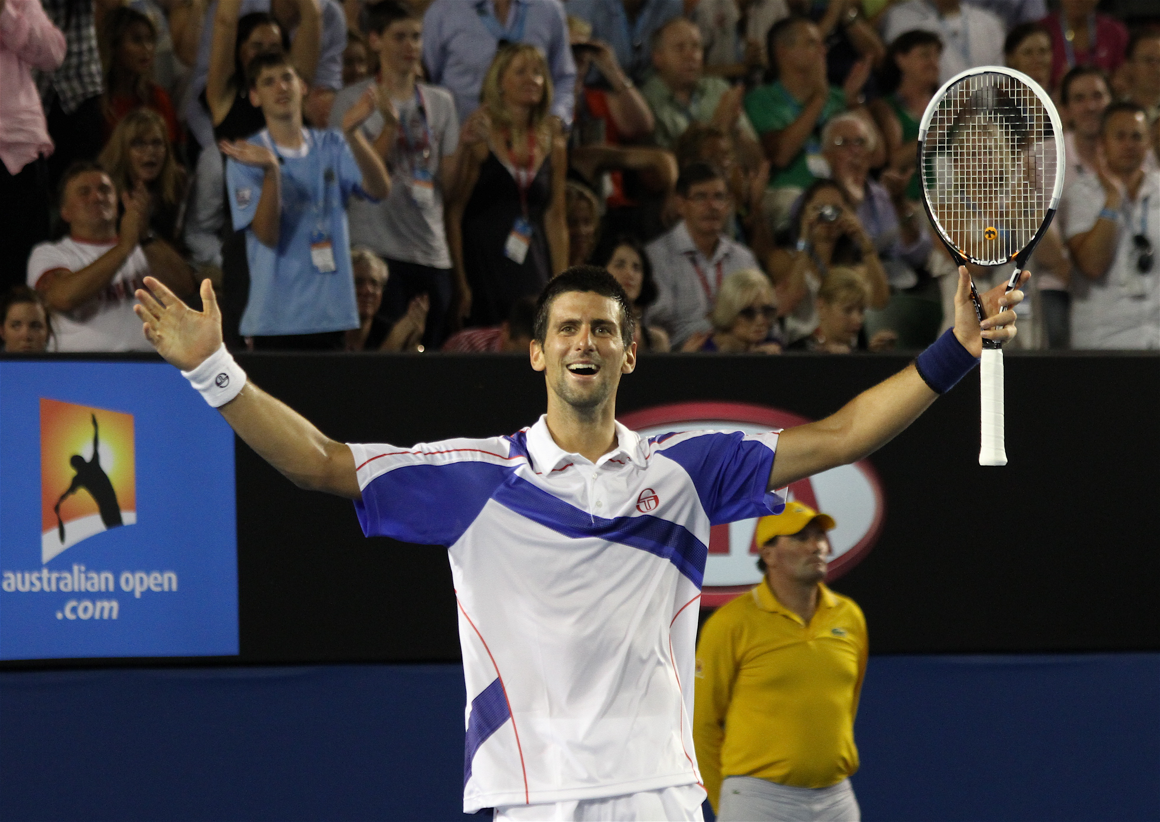 Novak Djokovic celebrating his 2011 Australian Open final win over Andy Murray